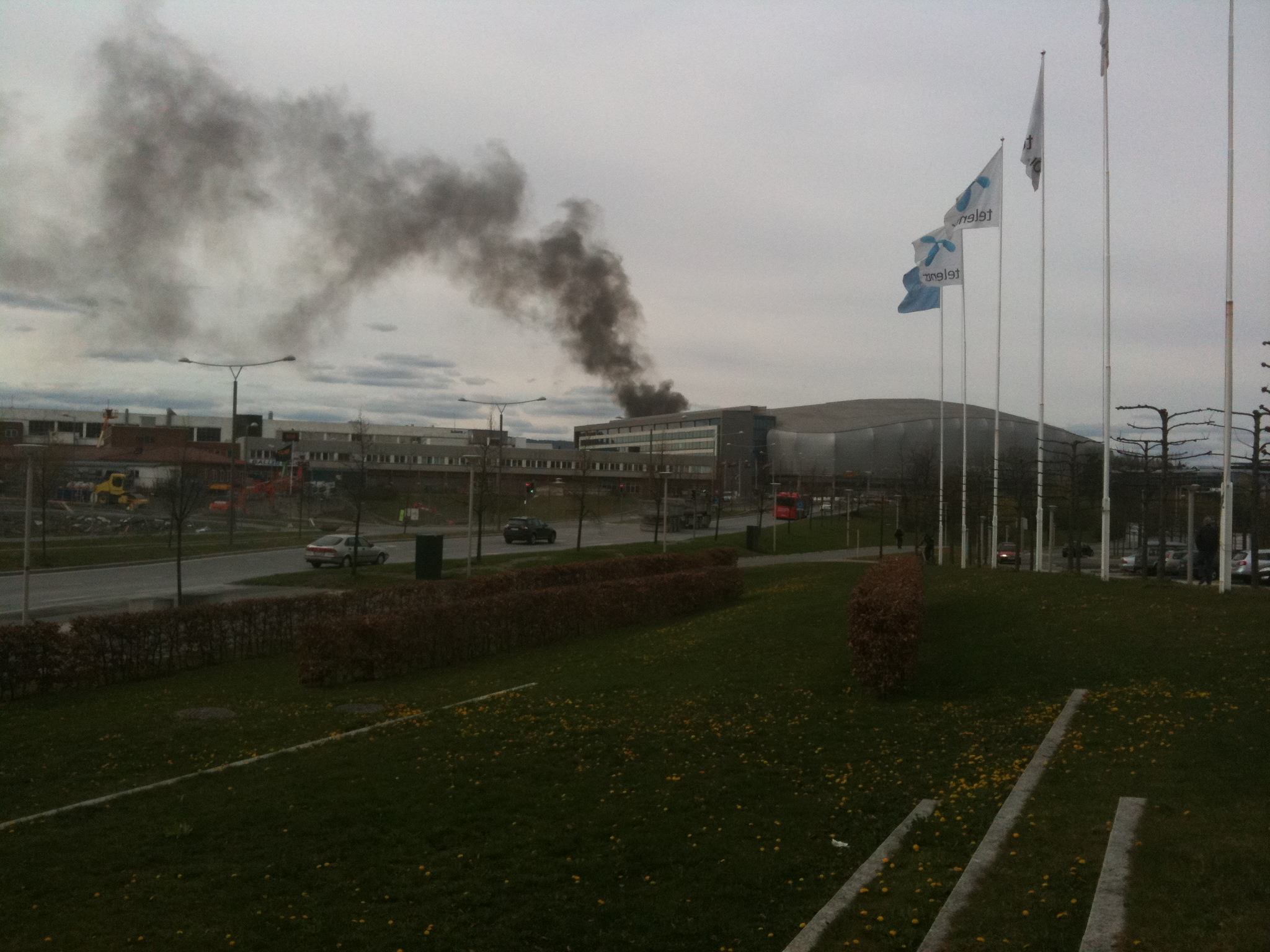 Lysaker School, Norway, in fire. Picture shows smoke appearing from behind the Telenor Arena, Fornebu.